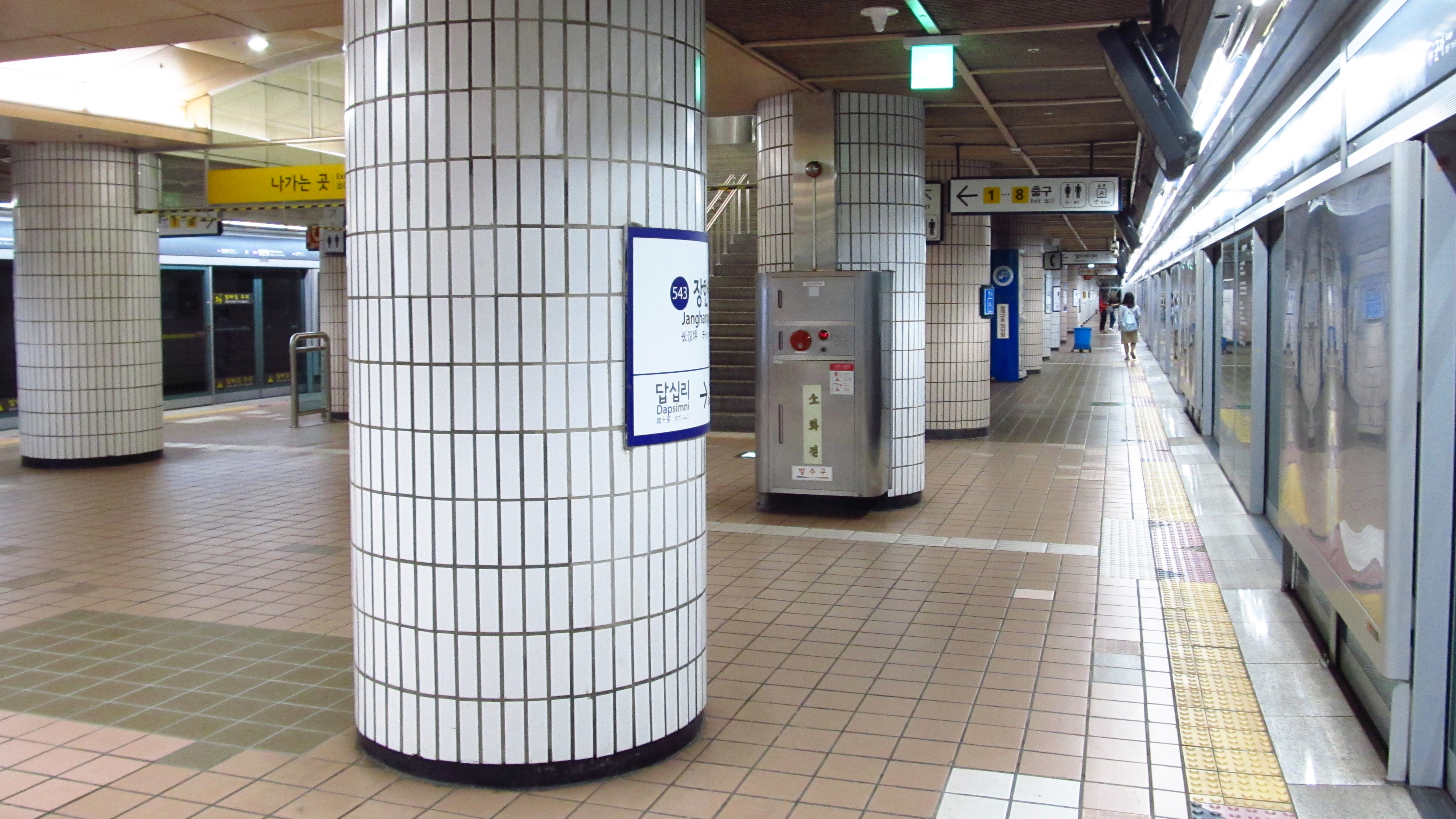 The platform at Janghanpyeong Station on Seoul Subway Line 5 in Dongdaemun-gu, Seoul, Republic of Korea(South Korea)